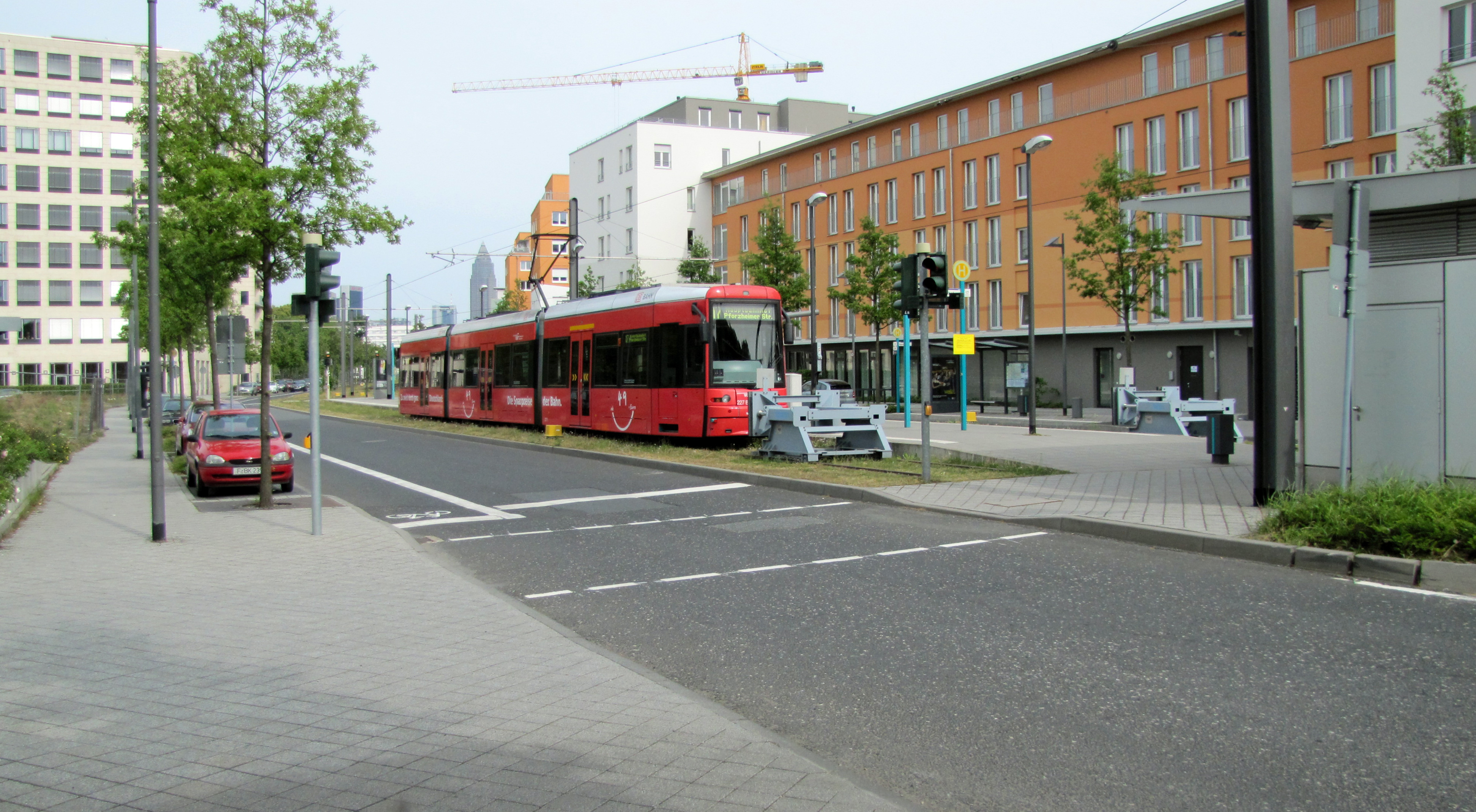 Tram terminus "Rebstockbad" at "Leonardo-da-Vinci-Allee" in Frankfurt-Bockenheim, Germany.